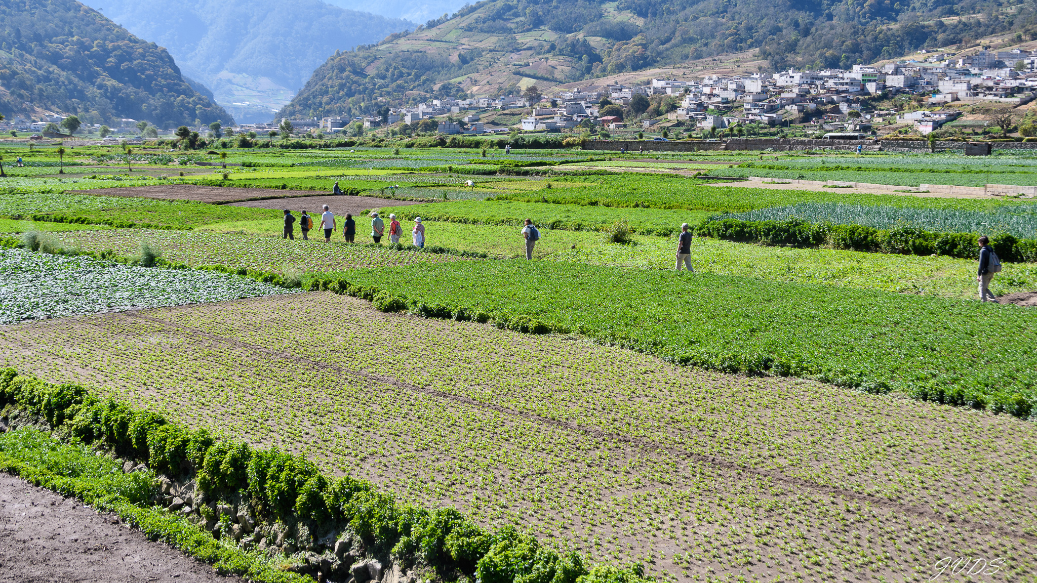 Almolonga valley in the high mountains of Quetzaltenango